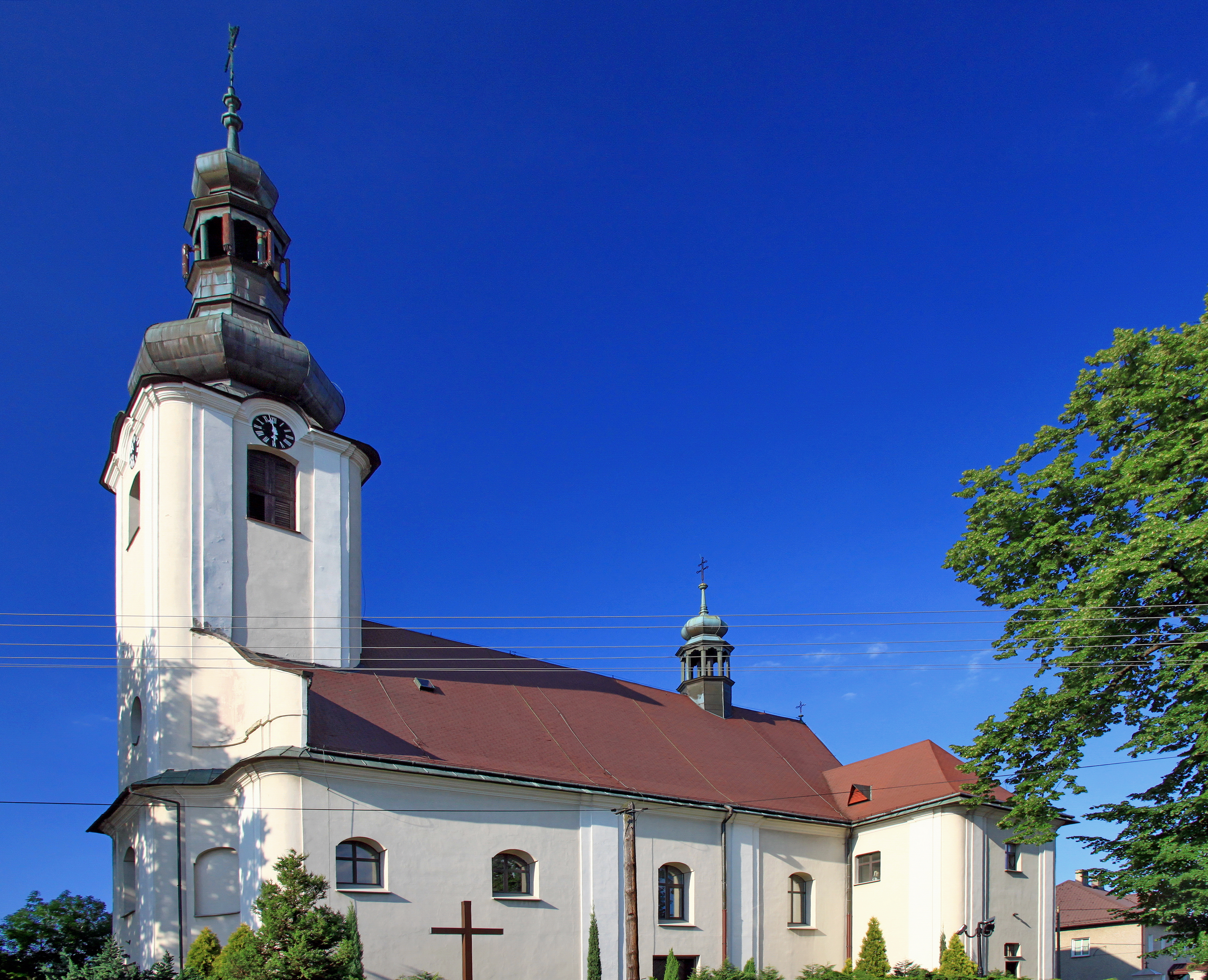 Rudzica, parish church of the Birth of St John the Baptist, build in 1782, 1945-1946, 1998-2001